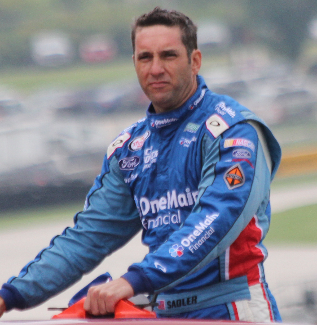 NASCAR driver Elliott Sadler waves to the crowd during drivers introduction at the Xfinity Series race at Road America.